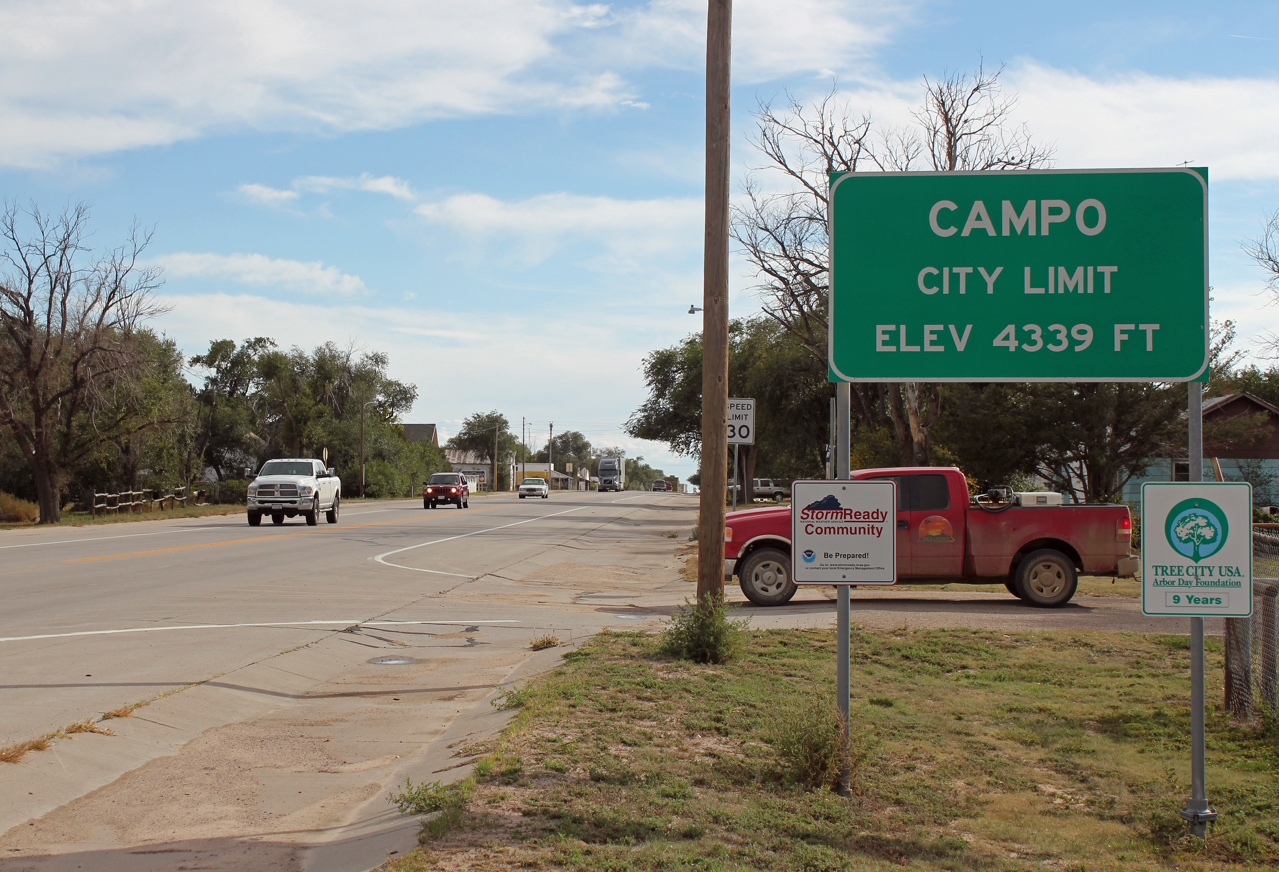 The town of Campo, Colorado, located in Baca County. The view is to the south at the northern border of the town on U.S. Route 287/385